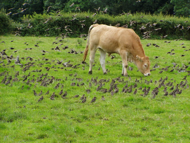 A field at Aghagallon, County Antrim, Northern Ireland. A flock of Common Starlings are foraging in short grass for food and a cow is grazing.